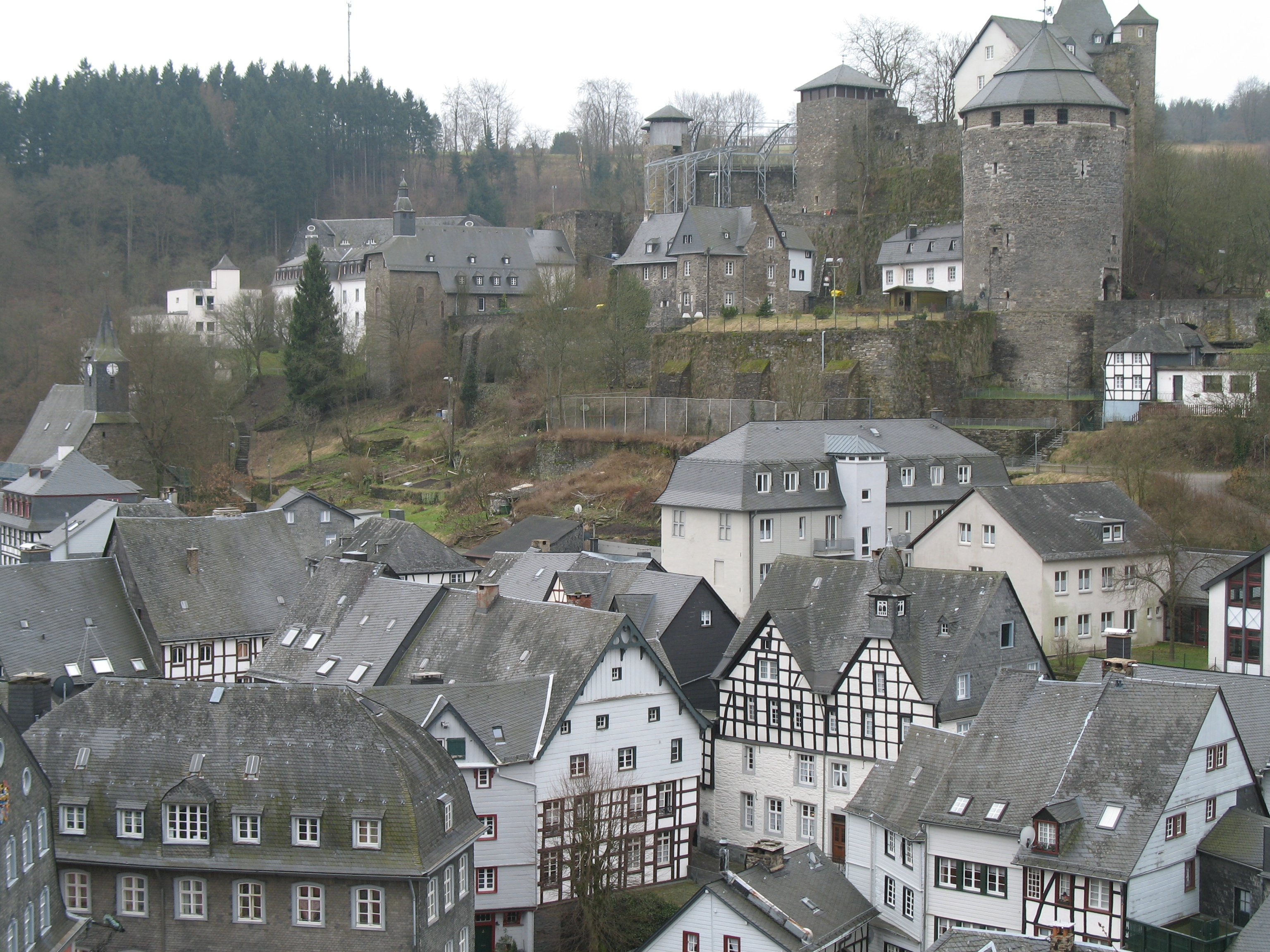 City of Monschau, Eifel with slate-roof houses and the ruined castle